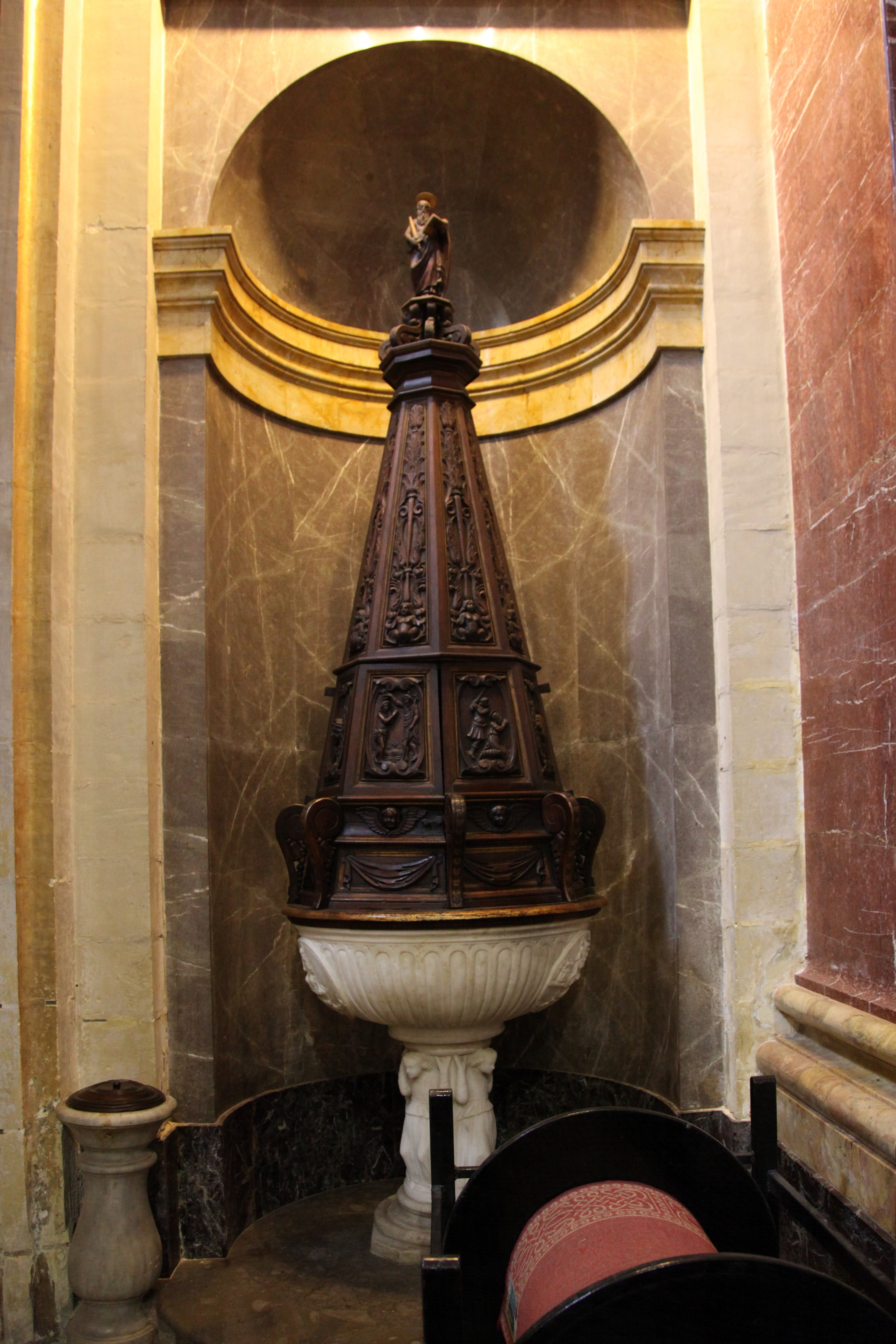 St. Paul's Cathedral, Pjazza San Pawl in Mdina, Malta